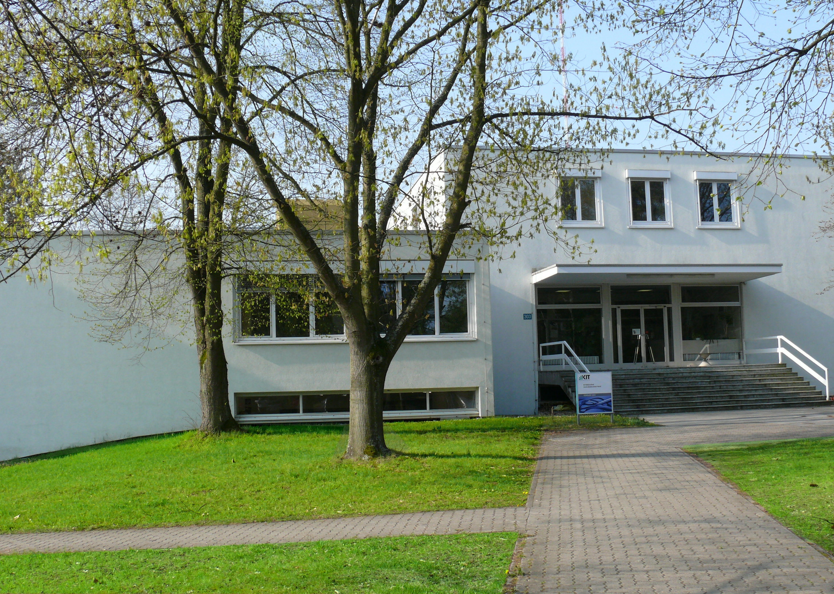 KIT Library North, Entrance